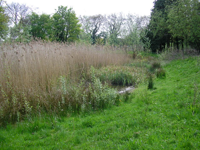 Pond on View Island View Island is the unusual name of a large island in the River Thames close to Caversham Lock. On the island is this attractive small pond.